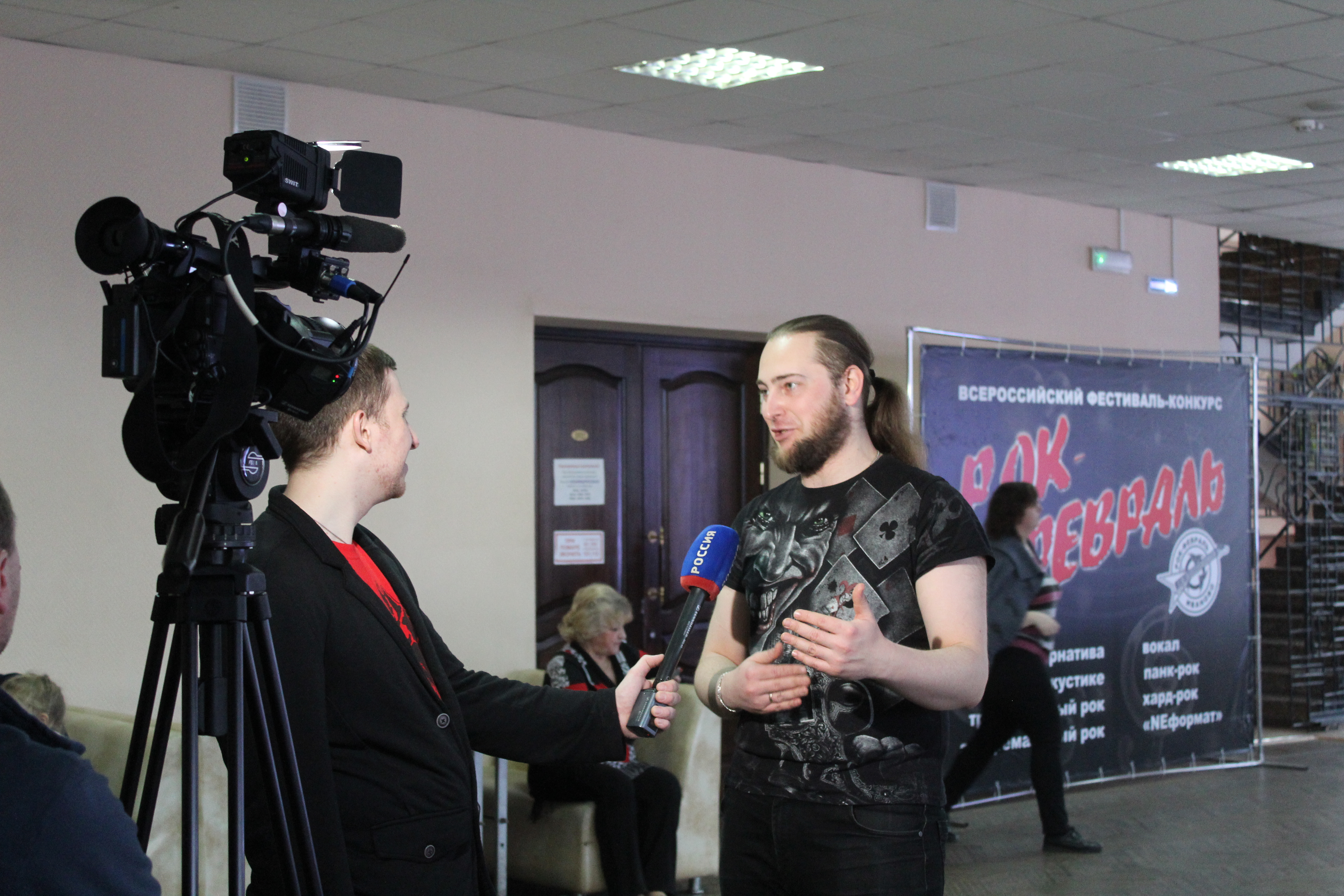 Интервью с одним из участников 2020 года